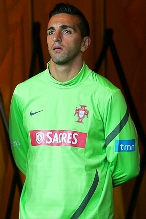 Hugo Miguel Almeida Costa Lopes